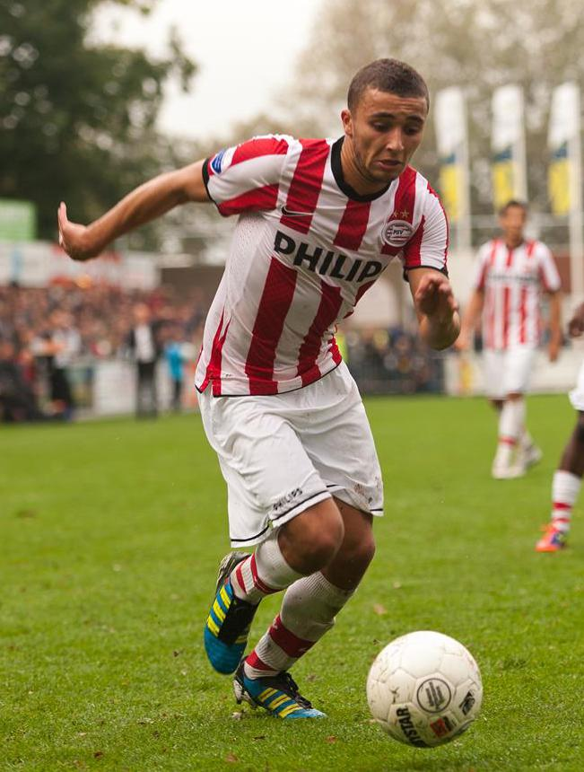 Zakaria Labyad playing for PSV Eindhoven.